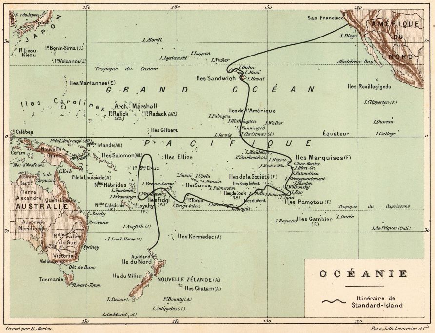 An illustration from Jules Verne's novel "Propeller Island" (also published as "The Floating Island, or The Pearl of the Pacific", 1895) drawn by Léon Benett.